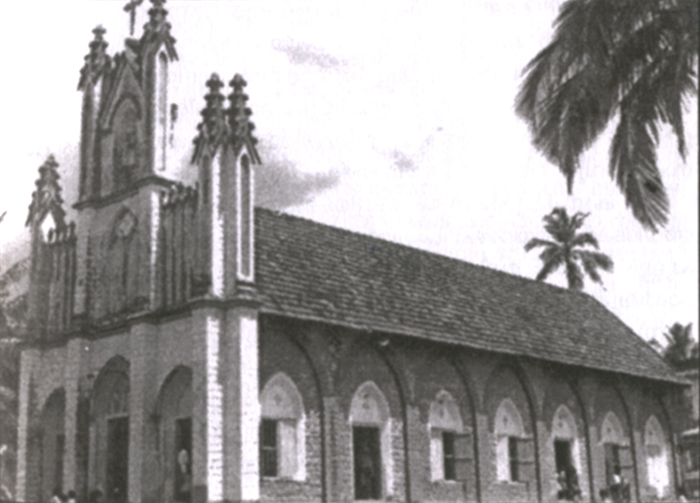 The first Church of Punalur (St Mary's Church) Image created from archives to enrich history of Punalur